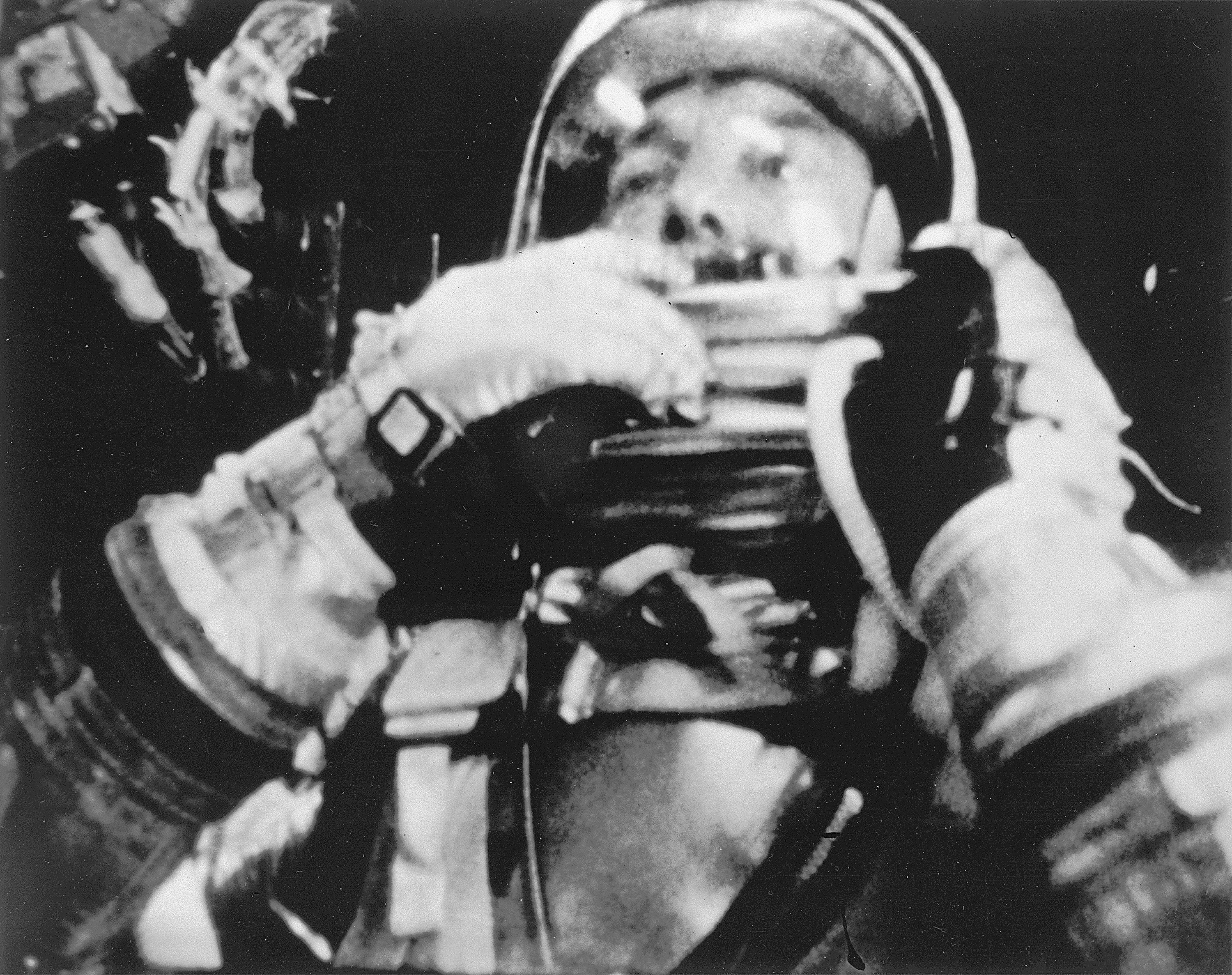 Astronaut Alan Shepard photographed in flight by a 16mm movie camera inside the Freedom 7 spacecraft. Shepard is just about to raise the shield in front of his face during descent after opening of the main parachute.